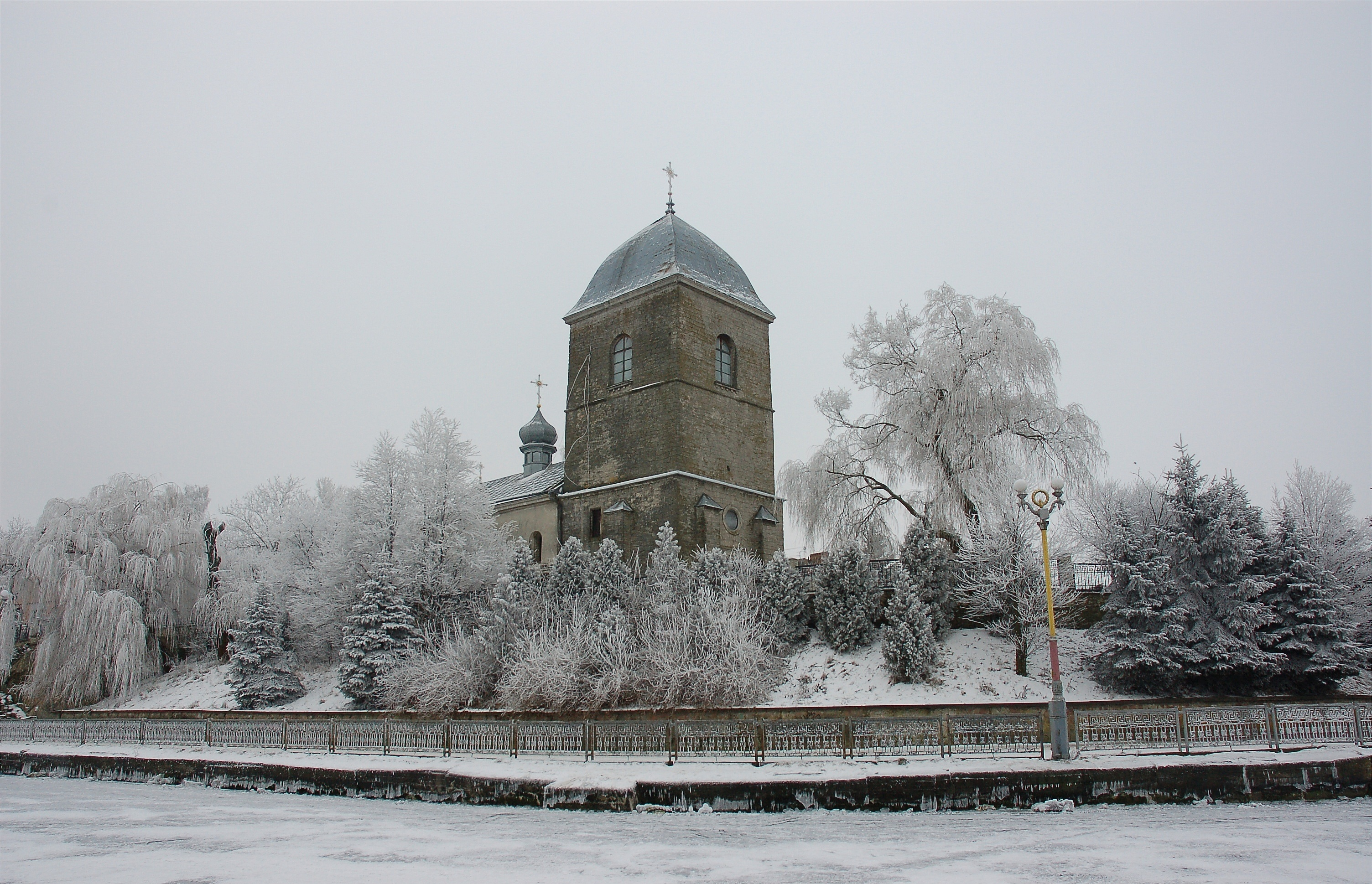 16th-century Exaltation of the Holy Cross Church over Ternopil Pond, the oldest church in the city (architectural monument of the national significance №635). Ternopil, Ukraine